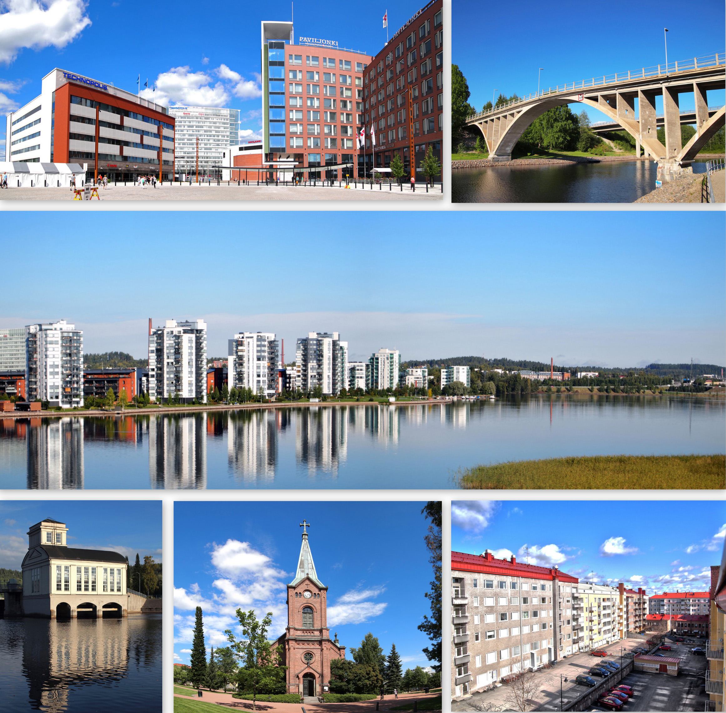 Collage of the pictures of Jyväskylä.